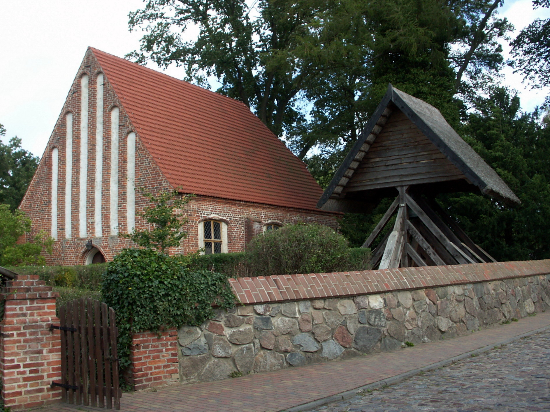 Morgenitz Church with the characteristical separate bell tower